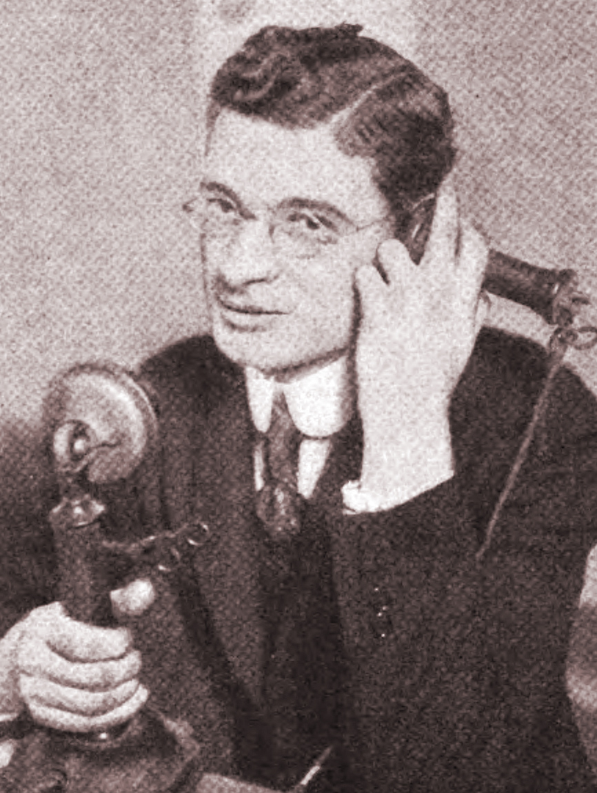 Sidney Hillman (1887-1946) as he appeared in a 1922 Keystone View Co. stereographic view